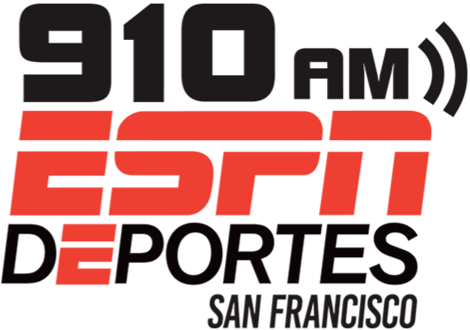 Logo of San Francisco radio station KKSF, 910 ESPN Deportes